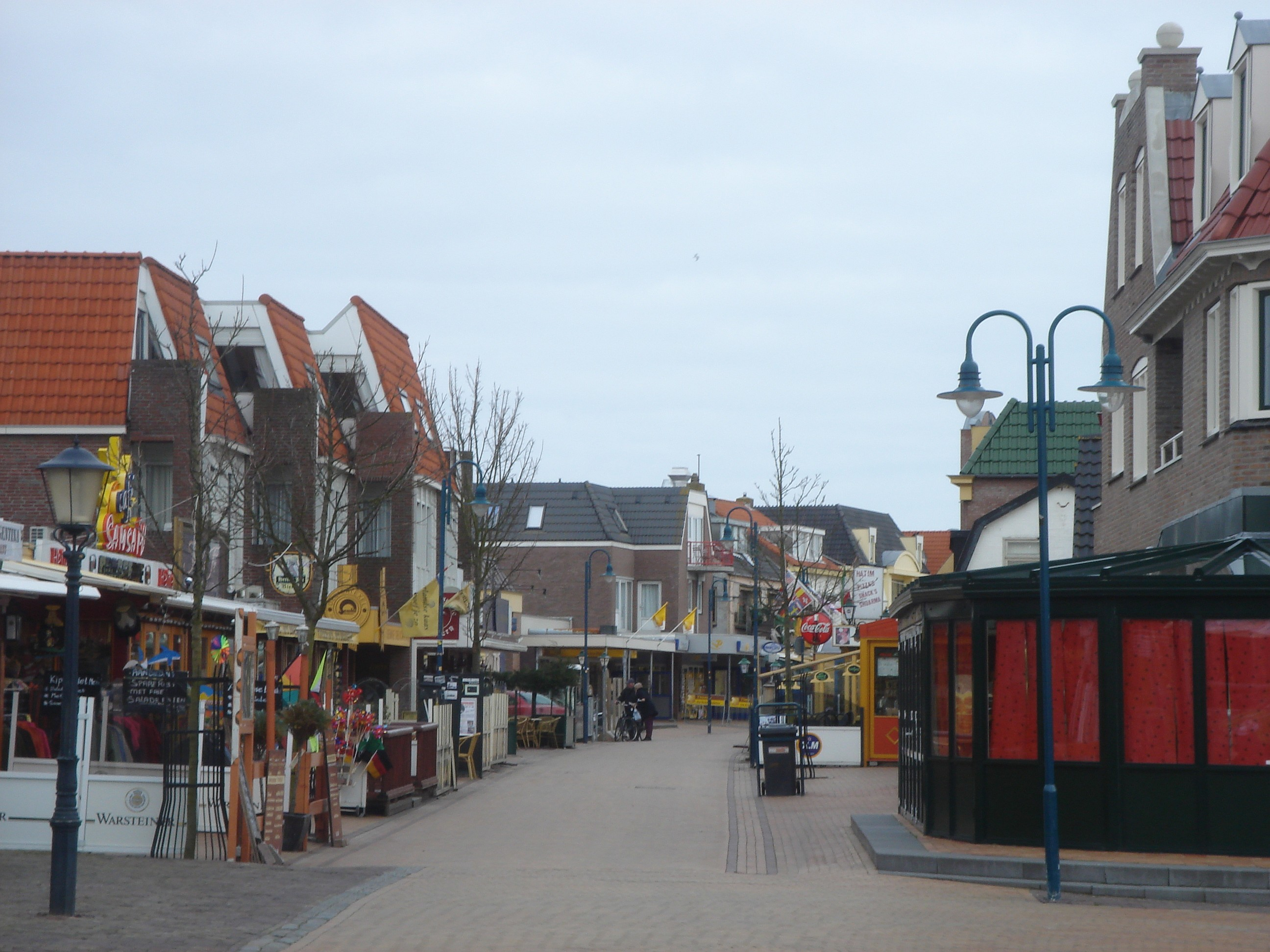 Main shopping street of De Koog on the island of Texel, Netherlands.